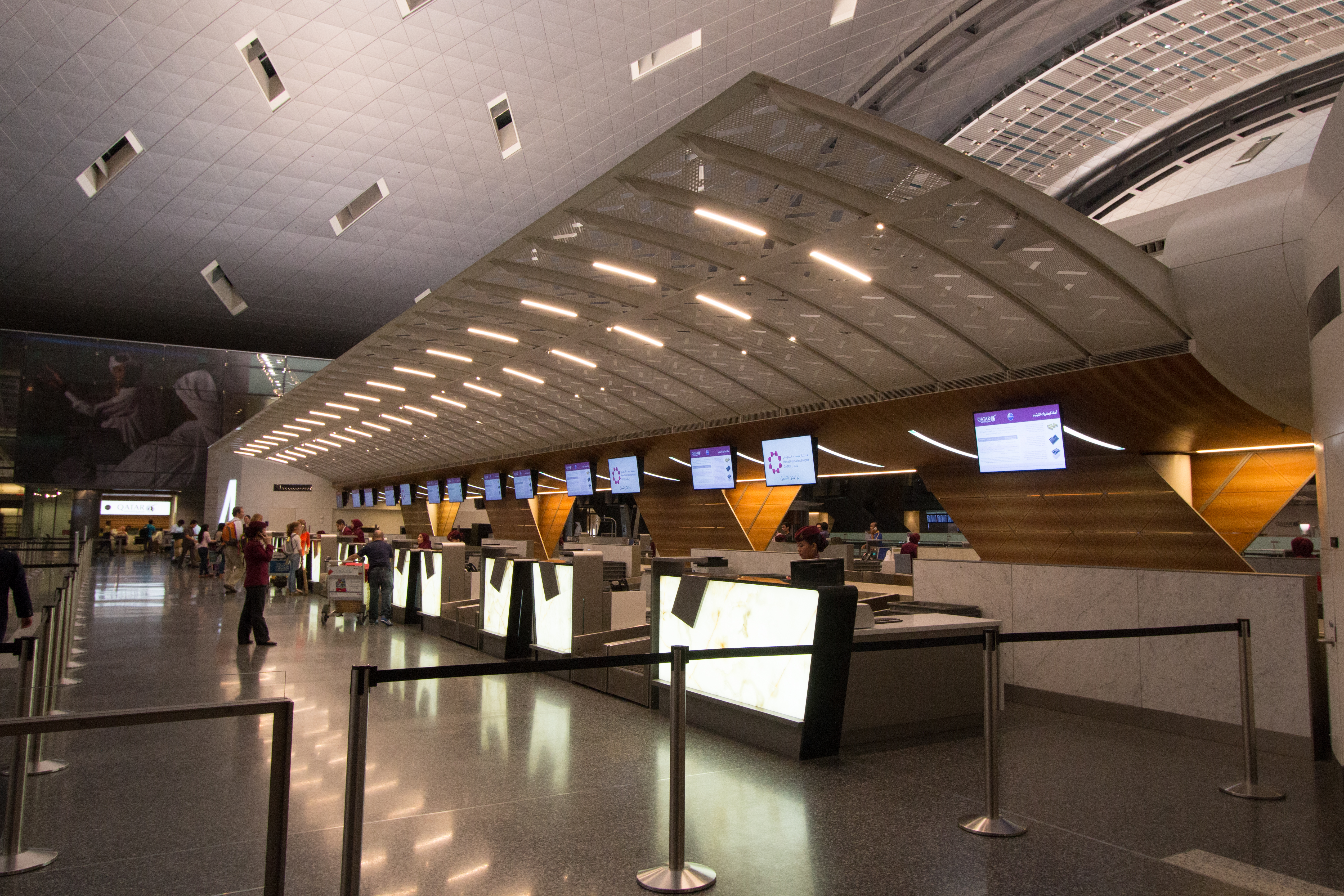 Hamad International Airport